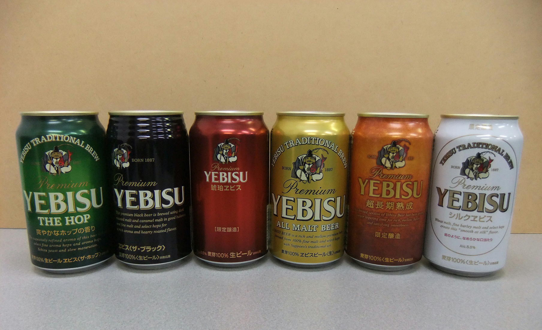 Sapporo Brewery, "YEBISU BEER" 6 items